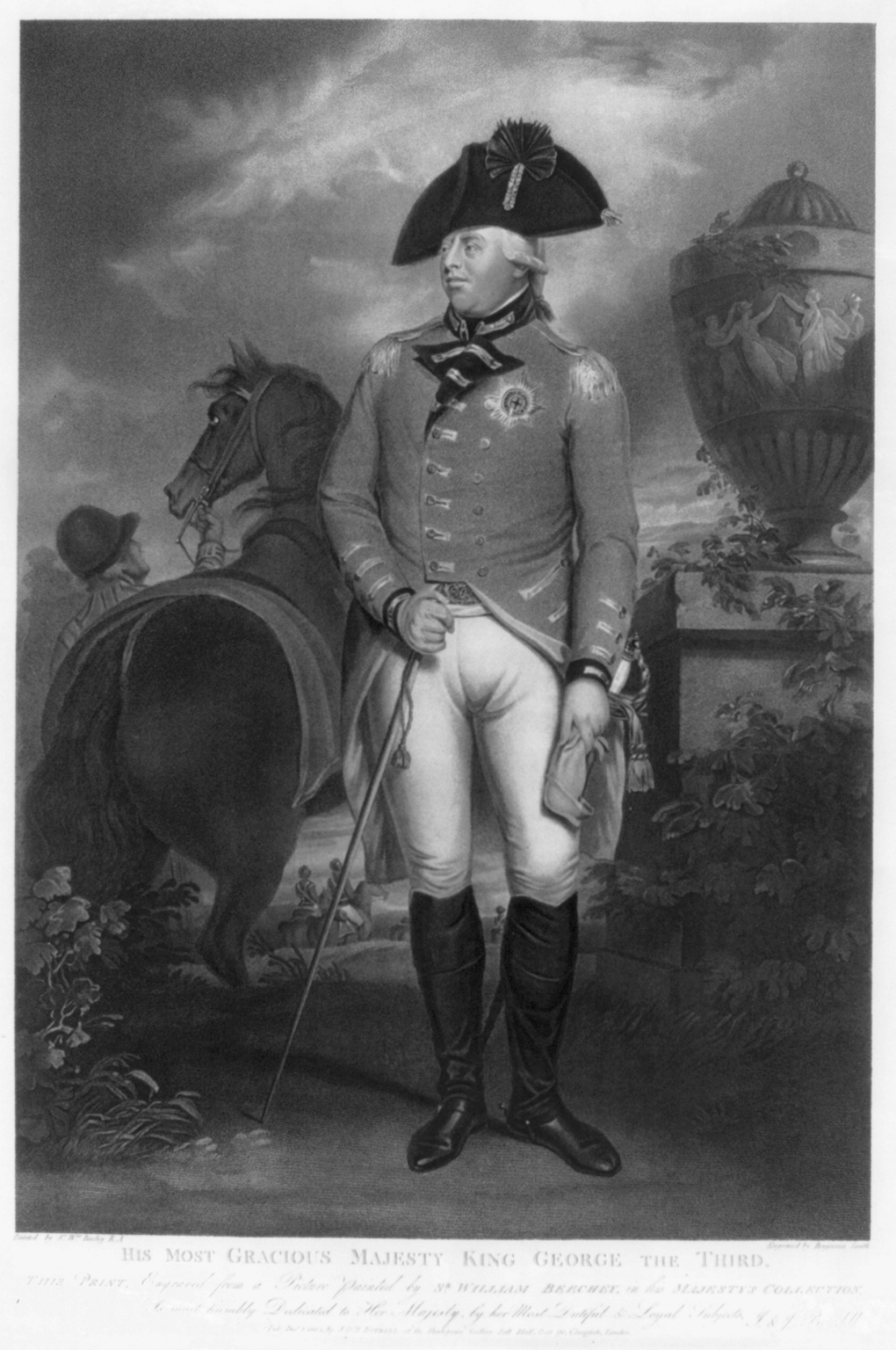 Print showing George III, full-length portrait, standing, facing left, based on a painting by William Beechey